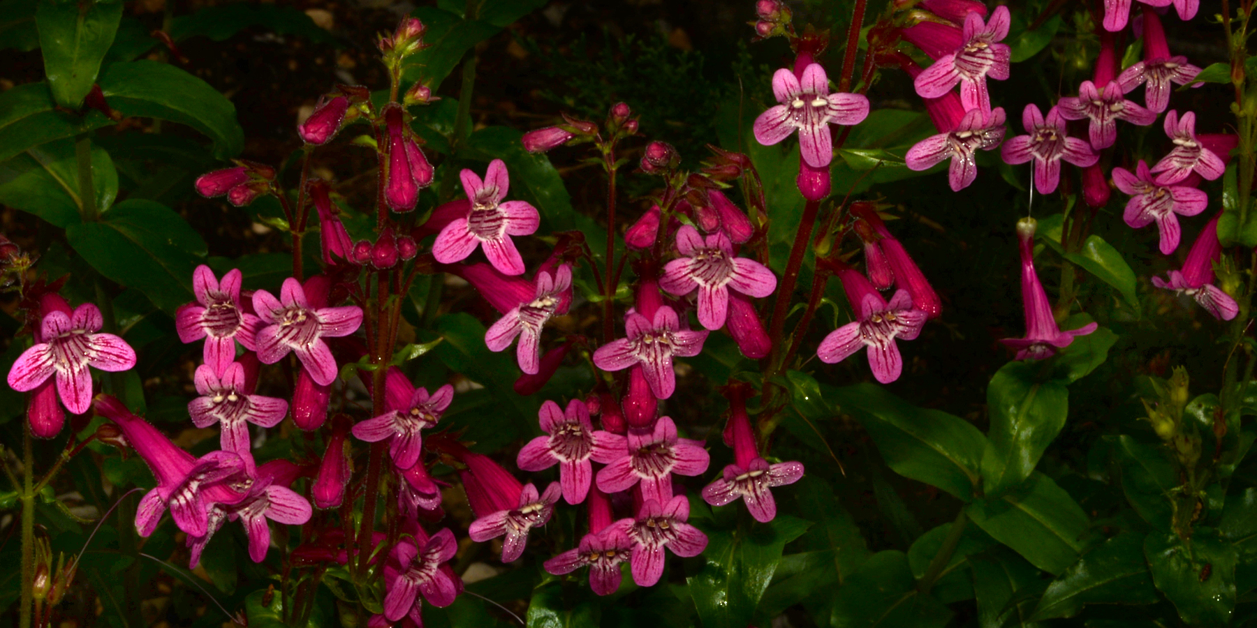 Scarlet Penstemon (Penstemon triflorus) is a wildflower that is endemic to the Edwards Plateau, photographed in Edwards County, Texas, USA. Photographed on 18 April 2015 by William L. Farr